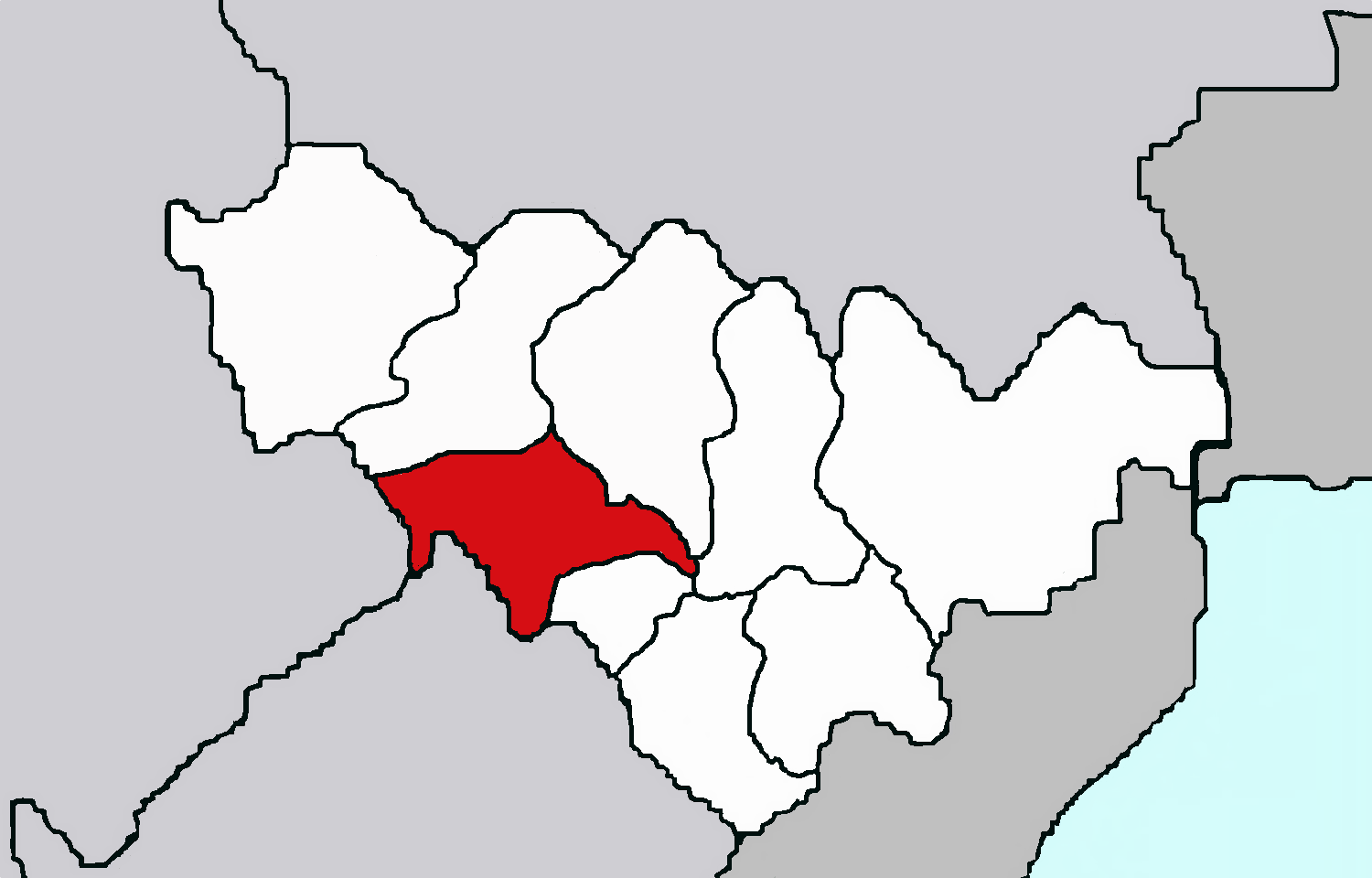 Maps of Jilin Province , China